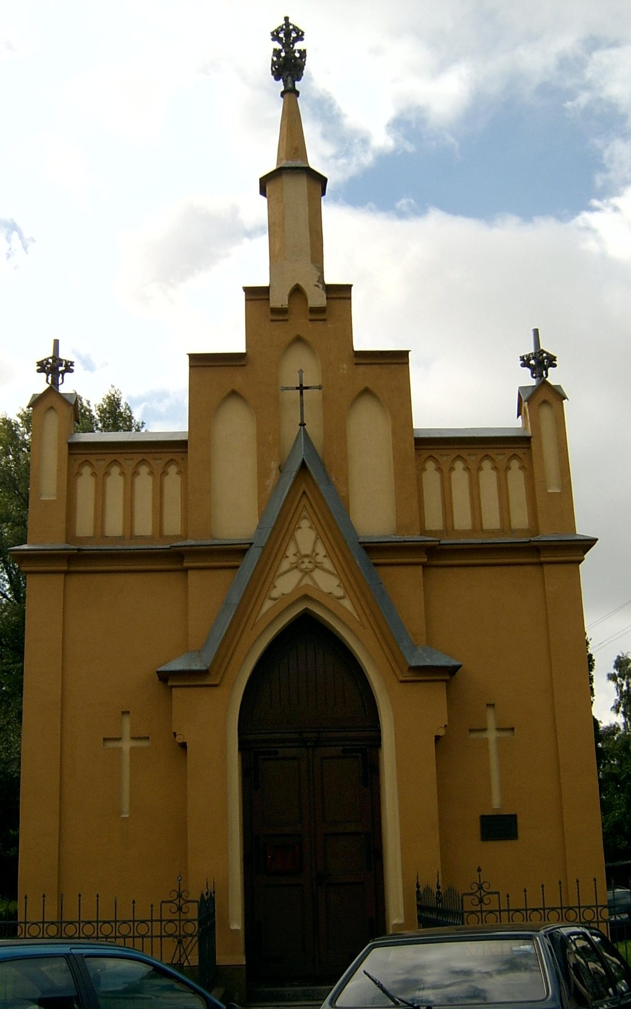 Evangelic-Augsburg Church in Leszno